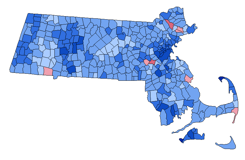 Massachusetts presidential election results by municipality, November 1996